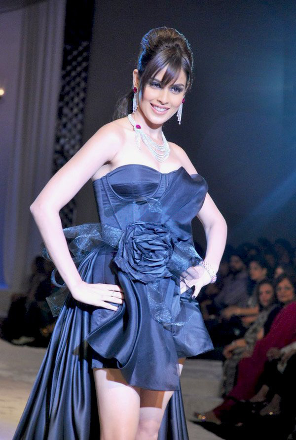 Genelia at HDIL India Couture Week